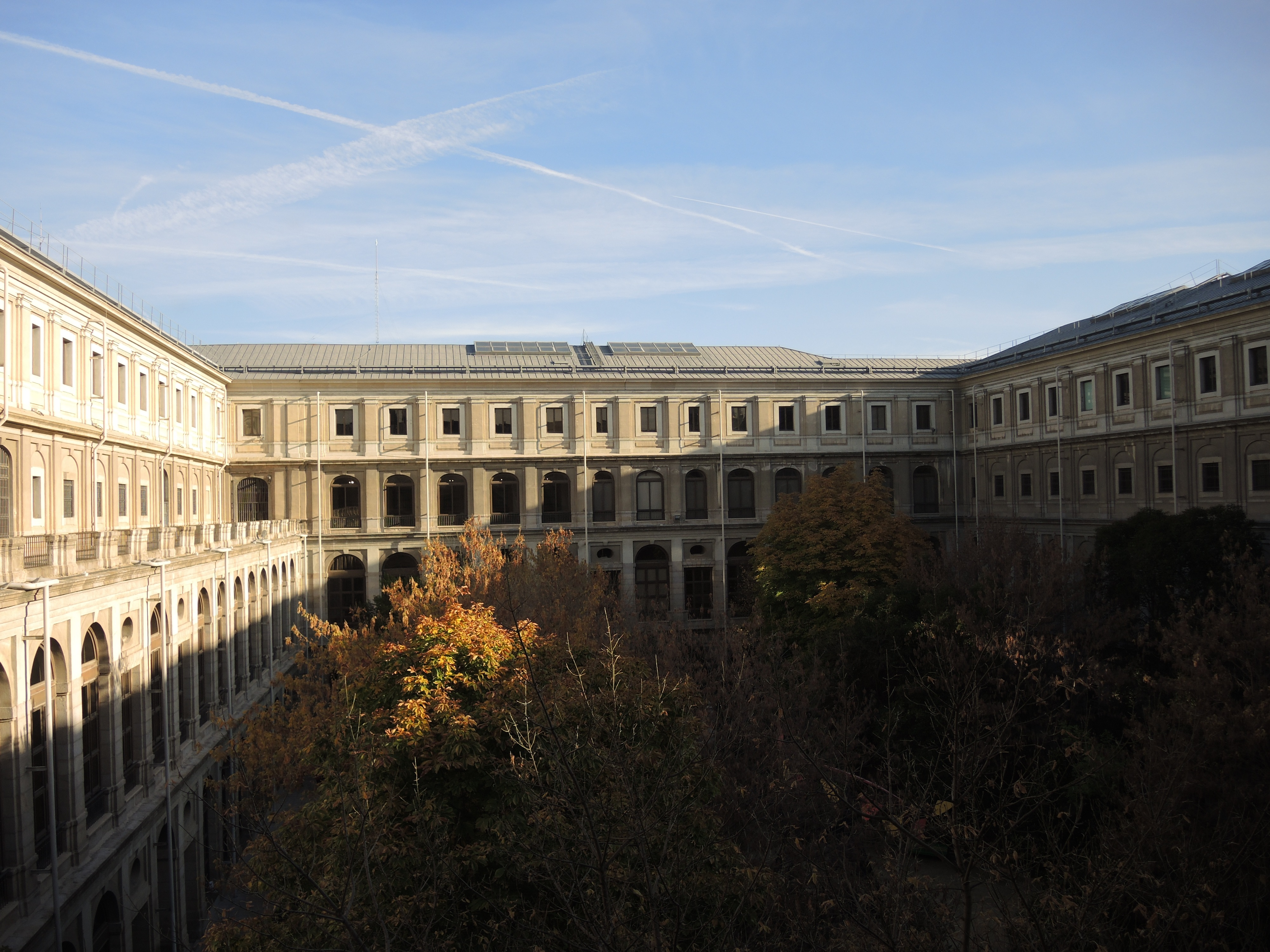 File:Museo Nacional Centro de Arte Reina Sofía interior courtyard